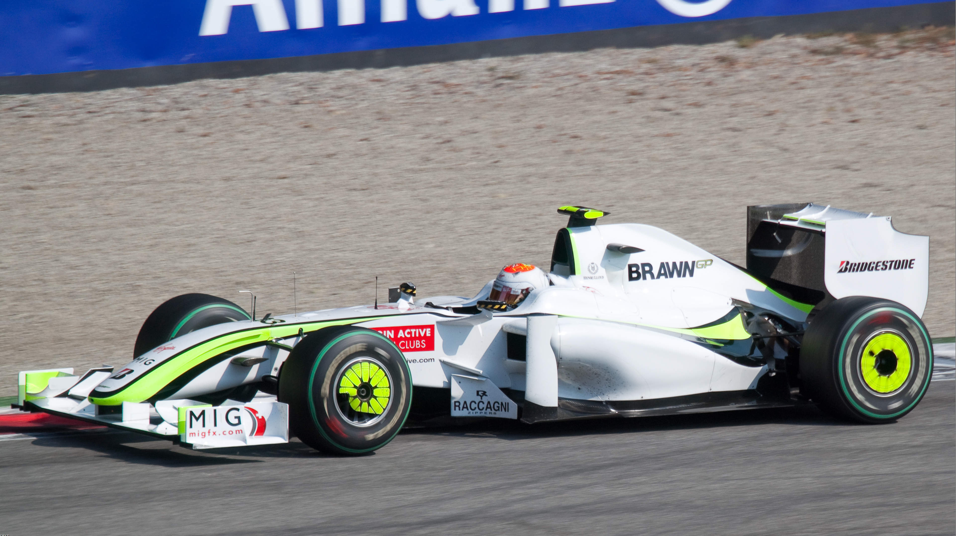 Rubens Barrichello driving for Brawn GP at the 2009 Italian Grand Prix.